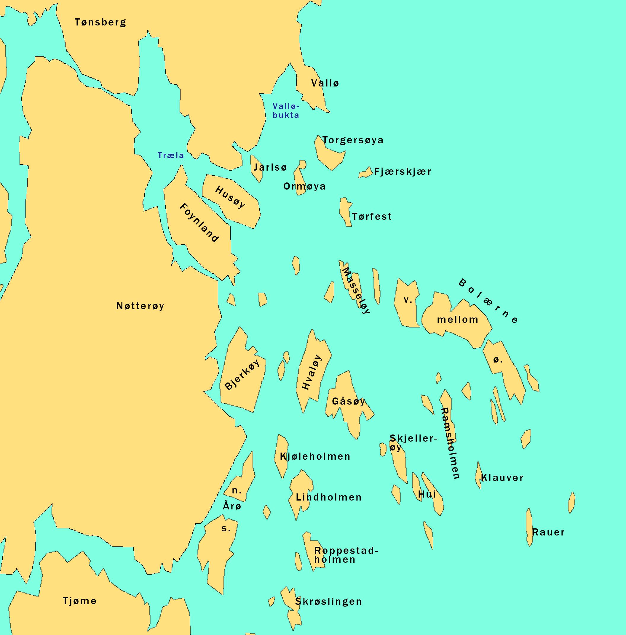 Map of Islands east of Nøtterøy, Vestfold, Norway